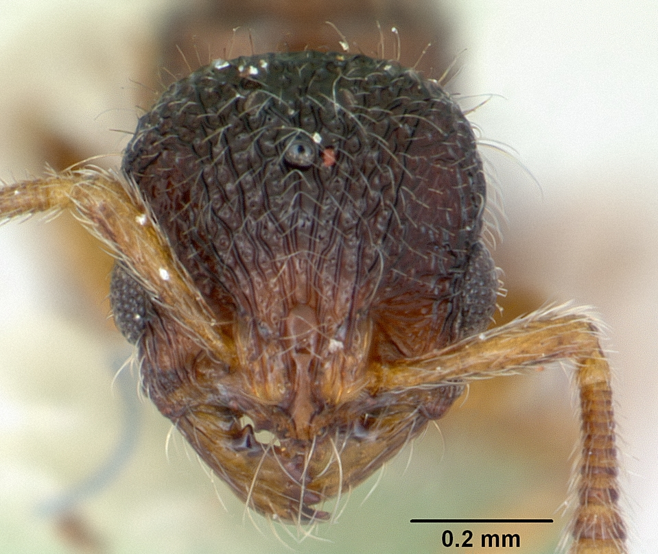 Head view of ant Adelomyrmex myops specimen casent0173239.